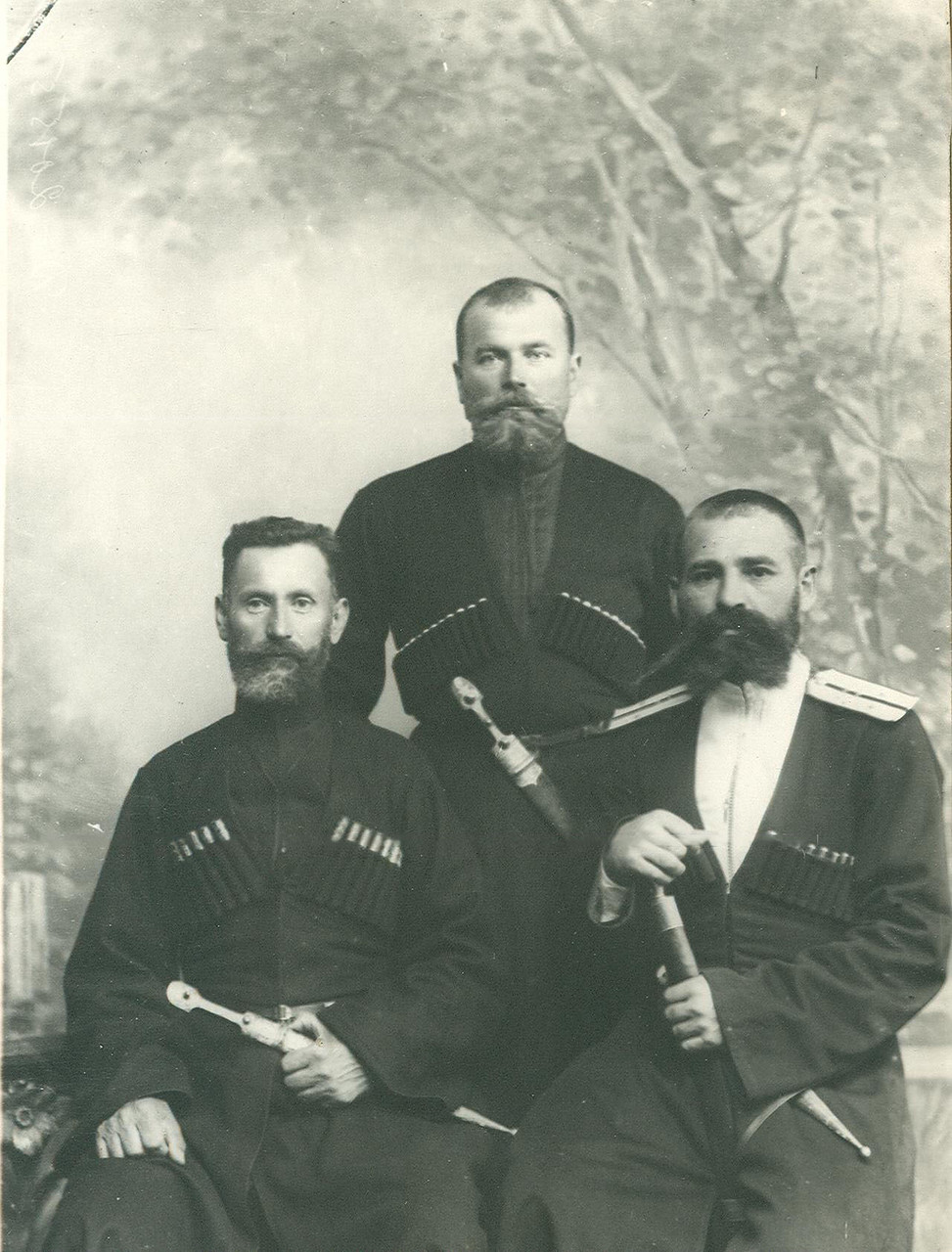 Kuban cossacks, Nikifor Kochevskiy, Piotr Grishay, Kondratiy Baridzh, are members of the First Russian State Duma